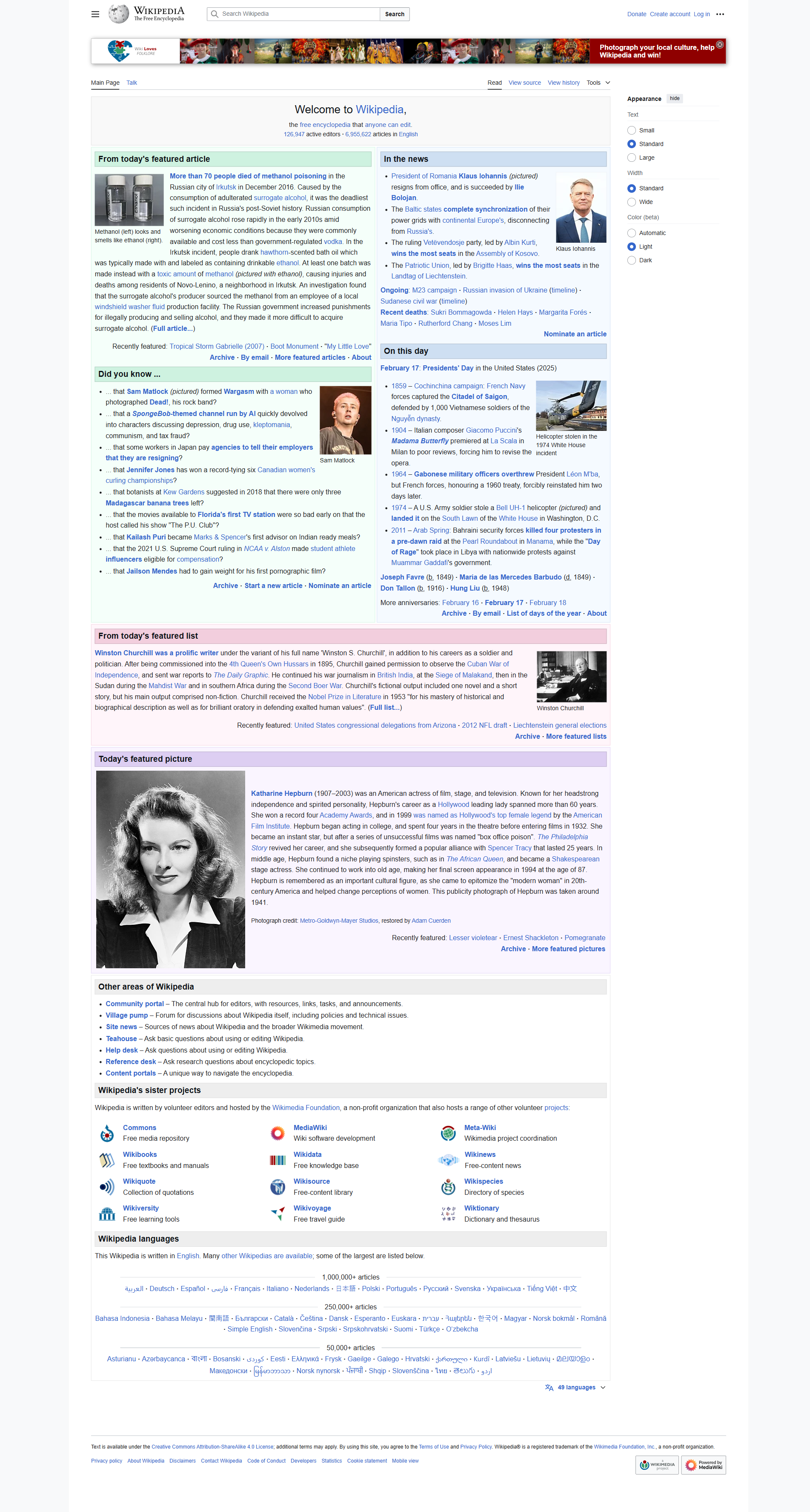 Screenshot of the latest version of the English Wikipedia's main page